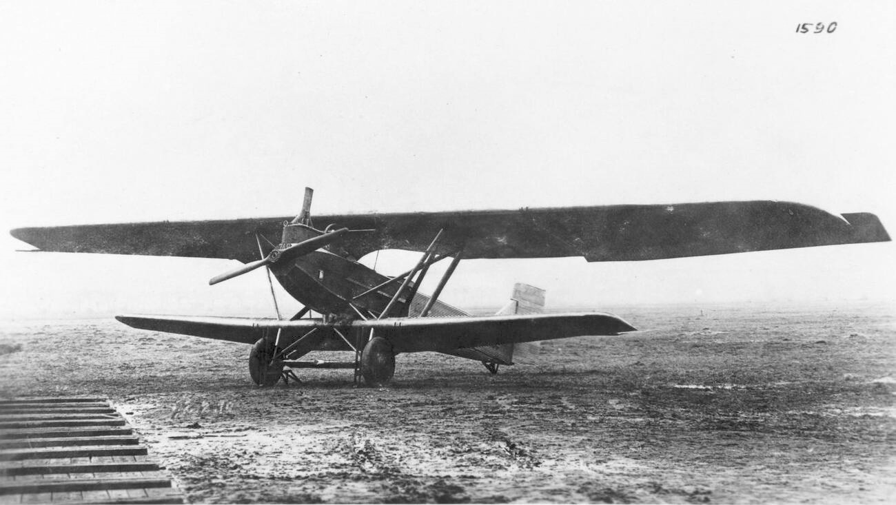 PictionID:43639906 - Catalog:16_004754 - Title:Junkers J.I (company designation J 4) all duralunumim fuselage and tale Nowarra photo - Filename:16_004754.TIF - - - - - Image from the Ray Wagner Collection. Ray Wagner was Archivist at the San Diego Air and Space Museum for several years and is an author of several books on aviation --- ---Please Tag these images so that the information can be permanently stored with the digital file.---Repository: San Diego Air and Space Museum